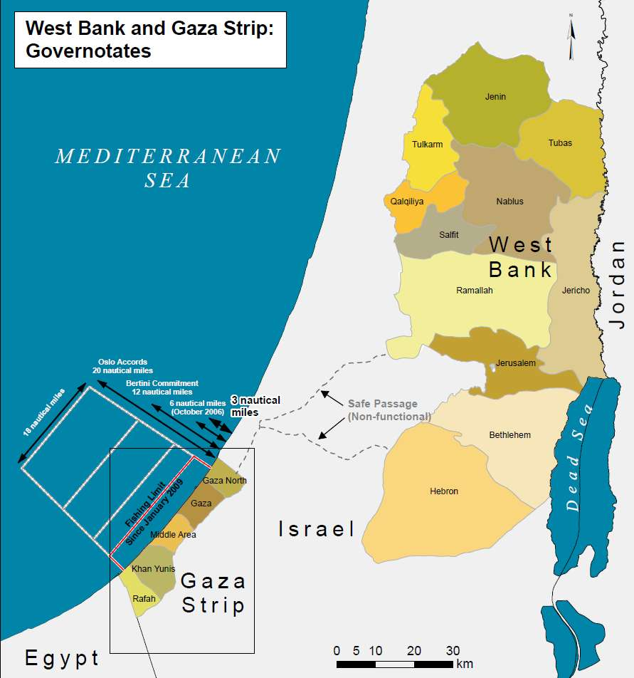 West Bank and Gaza strip Governotates with indication of fishing zone restrictions